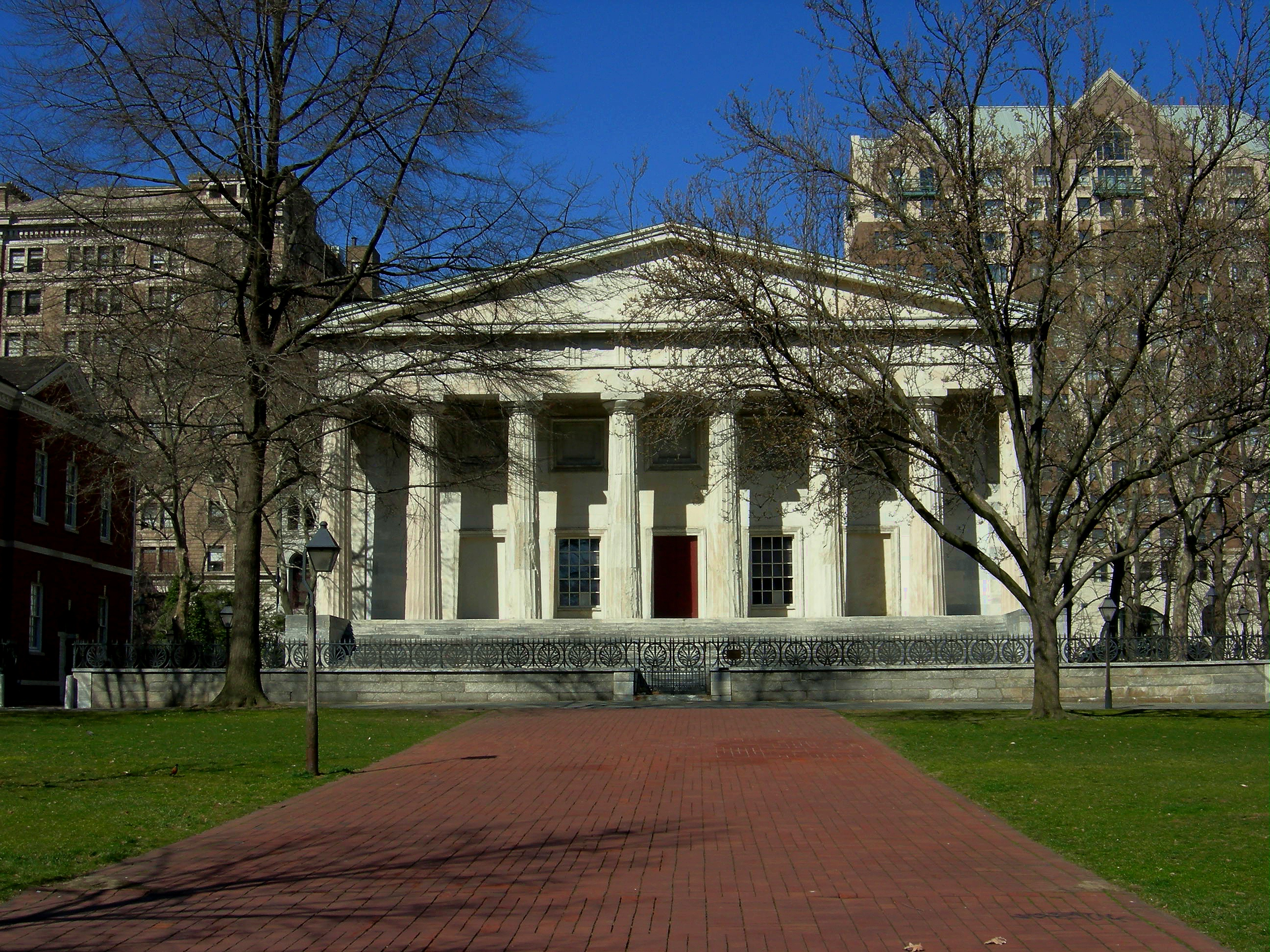 The Second Bank of the United States, Philadelphia, PA (Facing north)